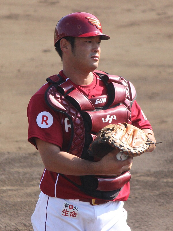 Tetsuya Yokoyama, a Japanese baseball player.